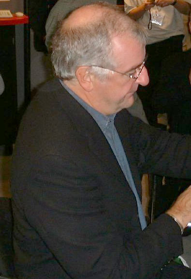 Douglas Adams